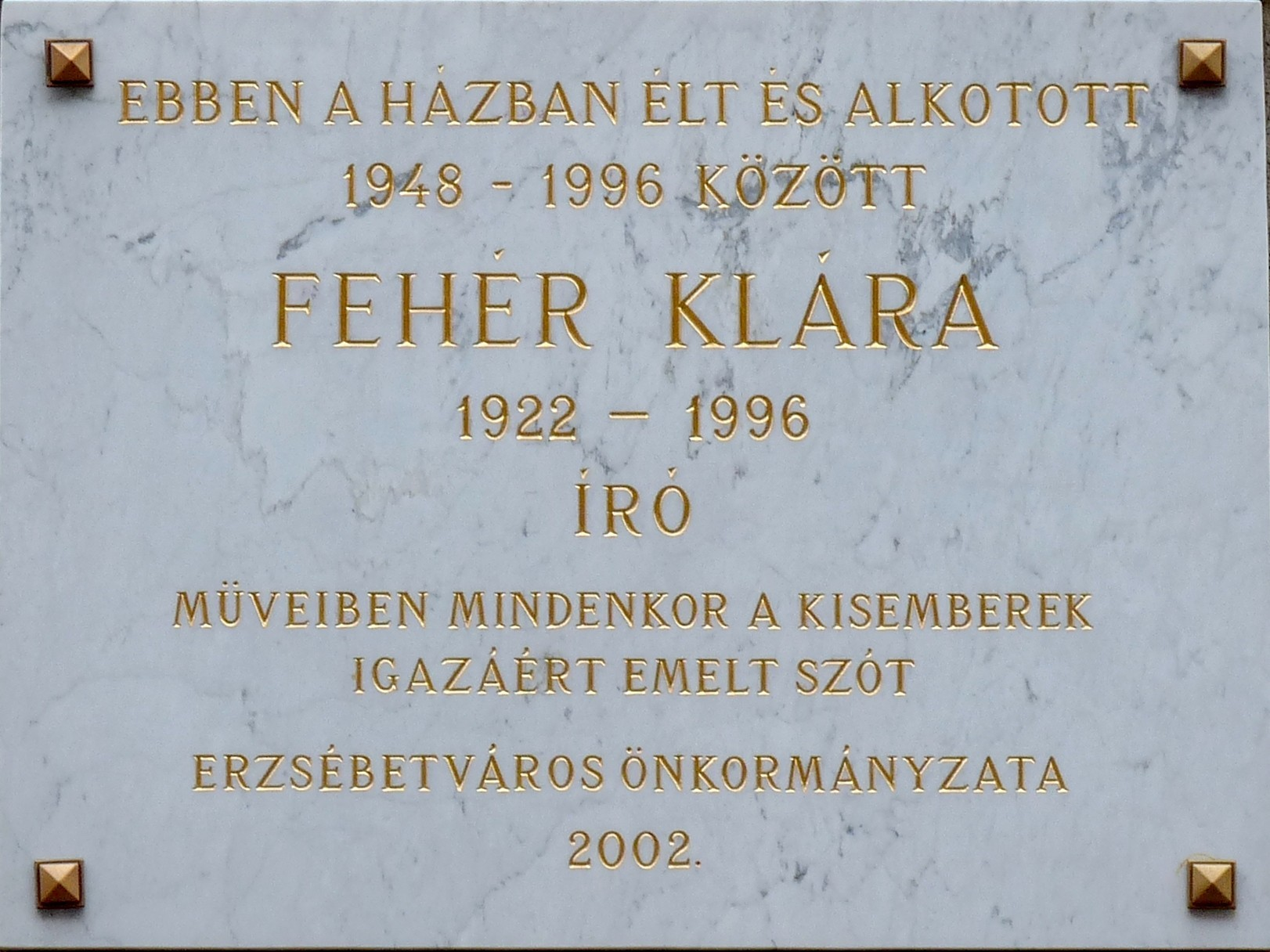 Klára Fehér commemorative plaque in Budapest District VII, Munkás Street No 3/b.